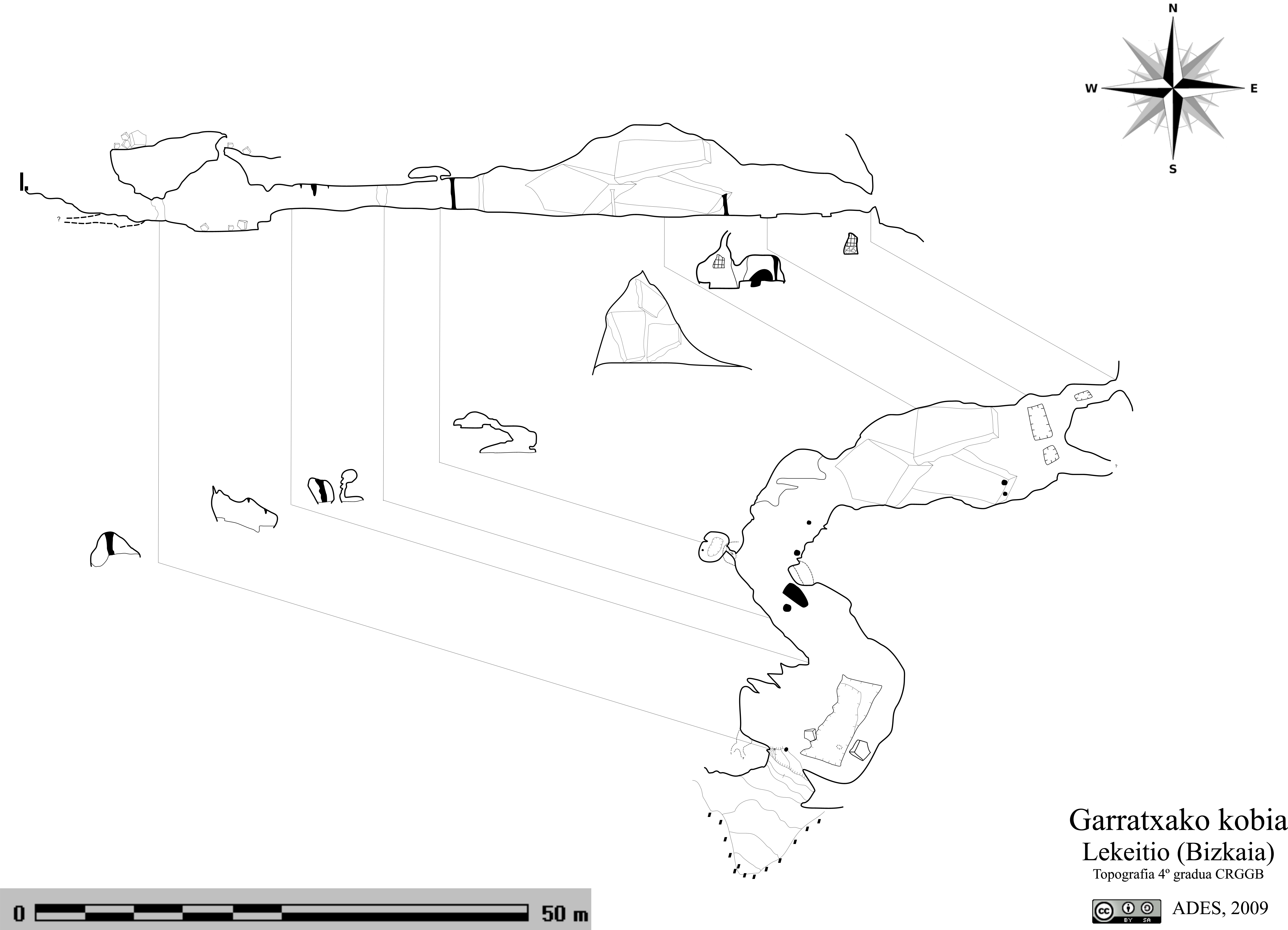 Map of the Lumentza cave, in Lekeitio, Basque Country